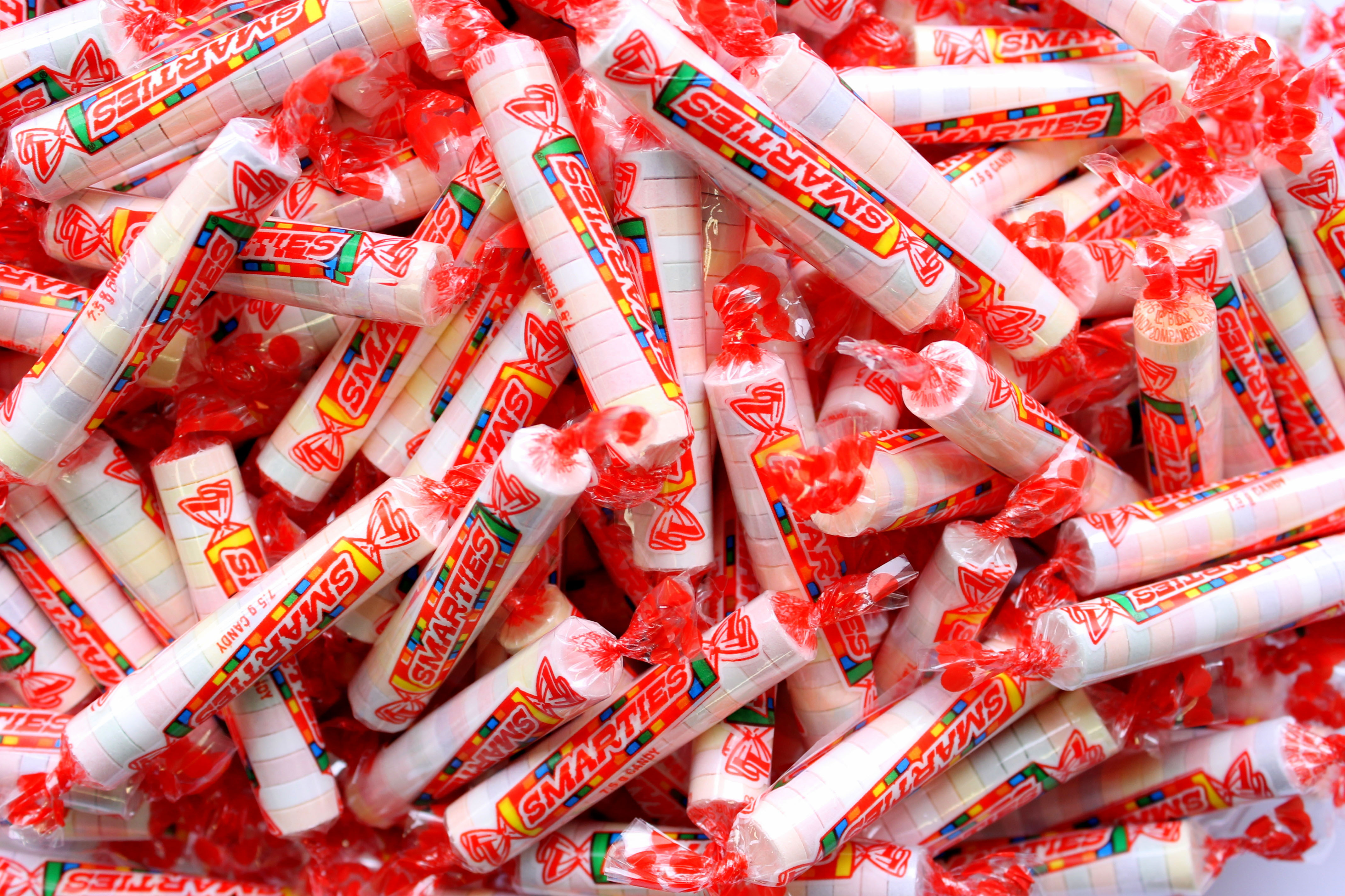 Image of a large number of Smarties candy rolls.